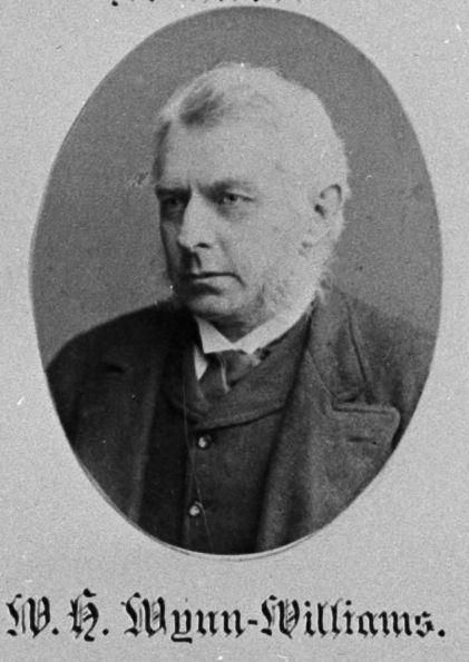 Photographic copy of a montage of photographic portraits depicting members of the 1882 House of Representatives. All portraits taken by William Henshaw Clarke of Wellington. Copy of montage made by S P Andrew Ltd.